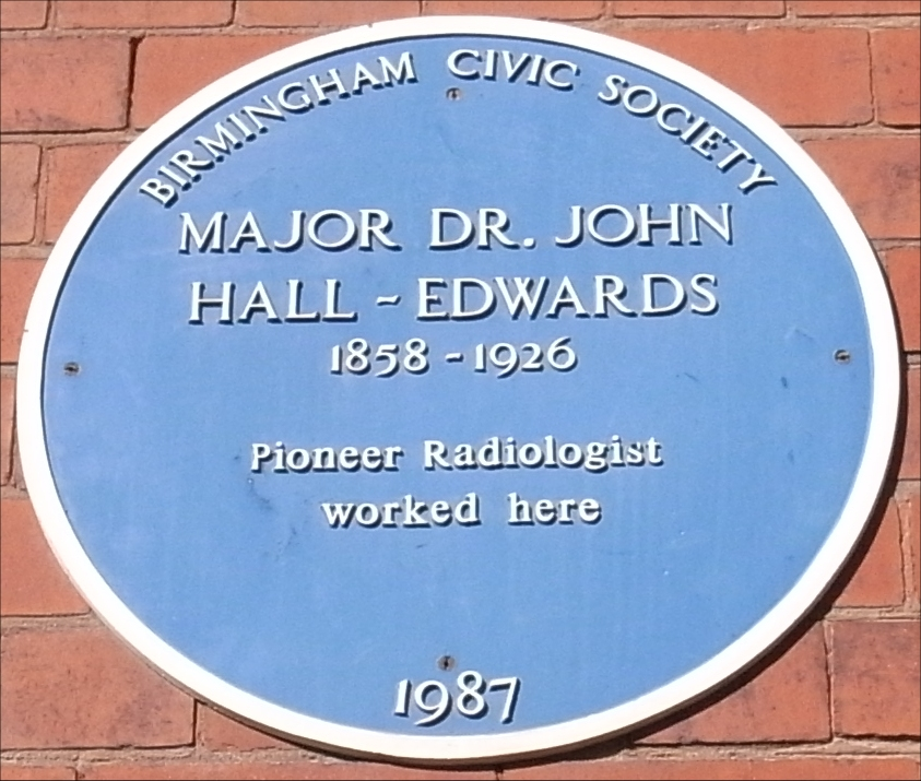 Blue plaque to John Hall-Edwards, British pioneer in the use of X-rays in medicine. On the wall of Birmingham Children's Hospital, Steelhouse Lane, Birmingham, England. The inscription reads "Birmingham Civic Society, Major Dr. John Hall-Edwards, 1858-1926, Pioneer Radiologist worked here, 1987". 1987 was the year the plaque was erected, when the building was Birmingham General Hospital.